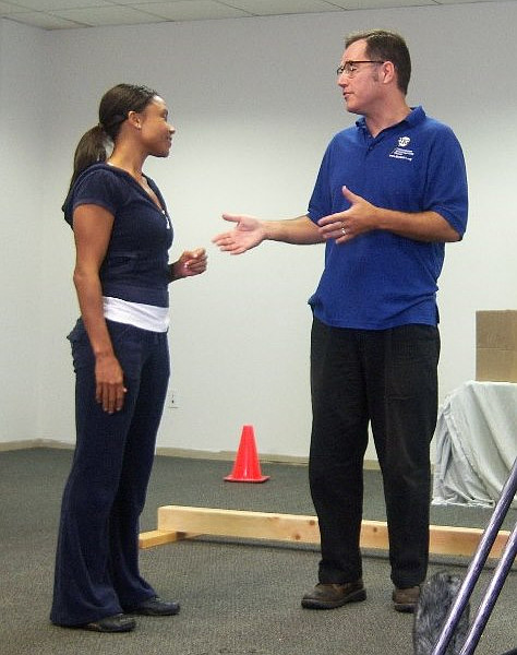 Independent Investigation Group IIG tests Power Balance Bracelets with Dominique Dawes from Yahoo Weekend News